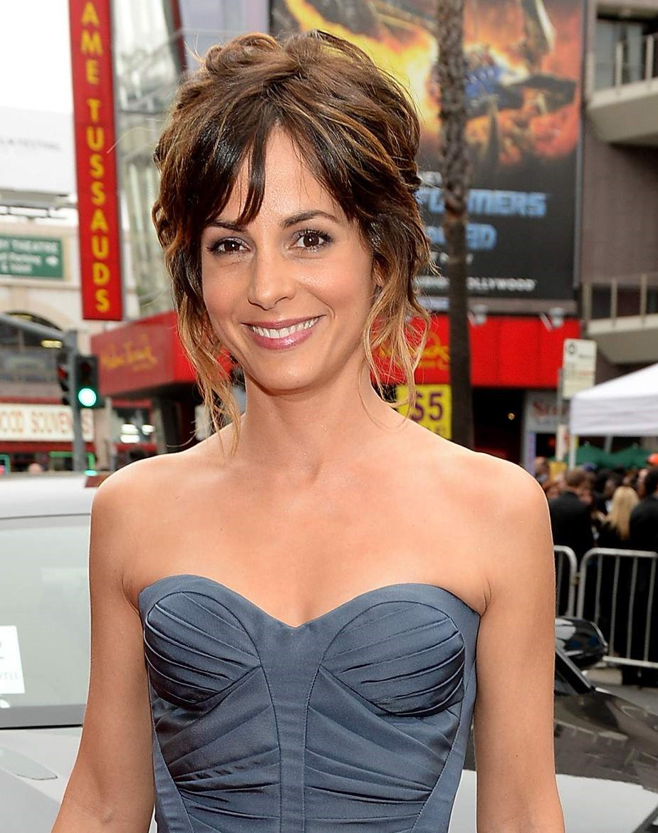 Satisfaction